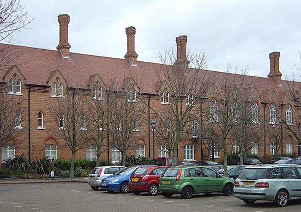 Peterscourt - the south façade. Built as a teacher training college to a design by Giles Gilbert Scott, this building has used as offices of one sort or another since 1938.See 671271